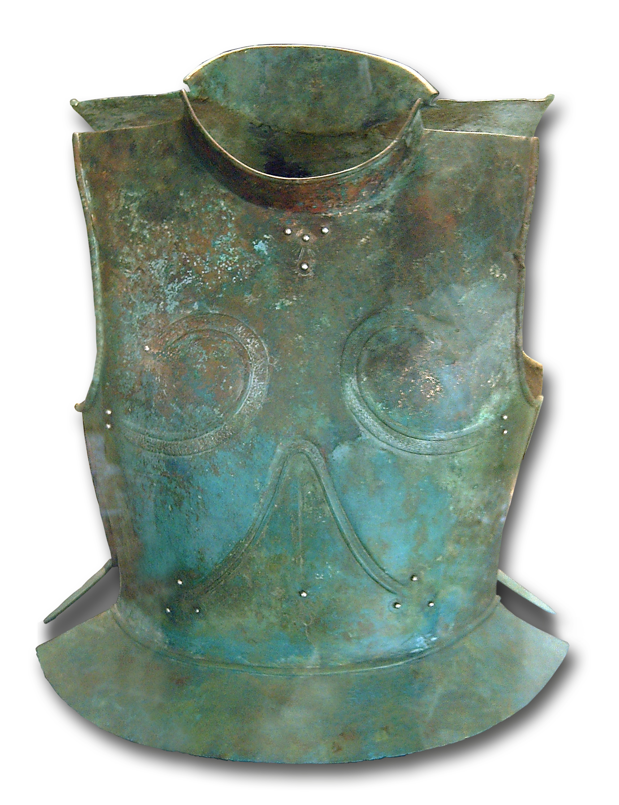 Ancient Greek bronze CUIRASS, at the National Archaeological Museum of Spain, in Madrid. Made between 620 and 580 BC. It's a sample of one of the oldest types of Greek military equipment from the archaic period.